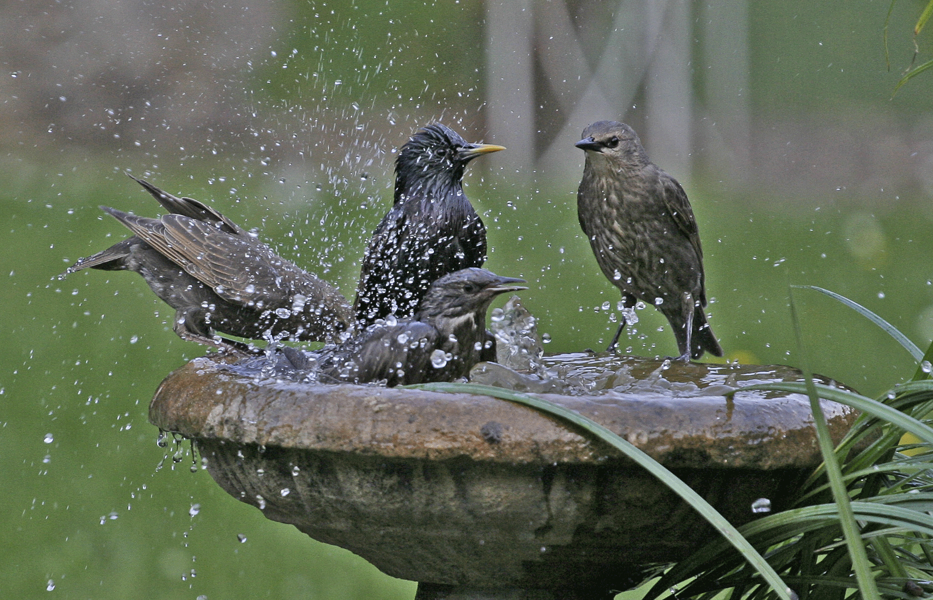 Four European Starlings including juveniles taking a garden fountain in Phoenix Garden, London, UK.